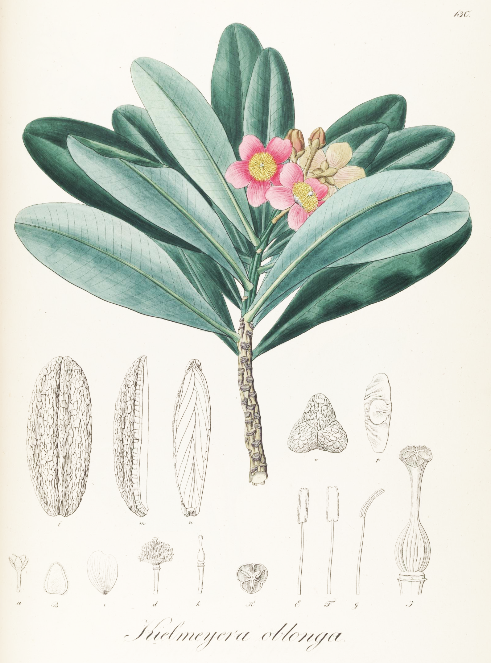 Plate from book Kielmeyera oblonga